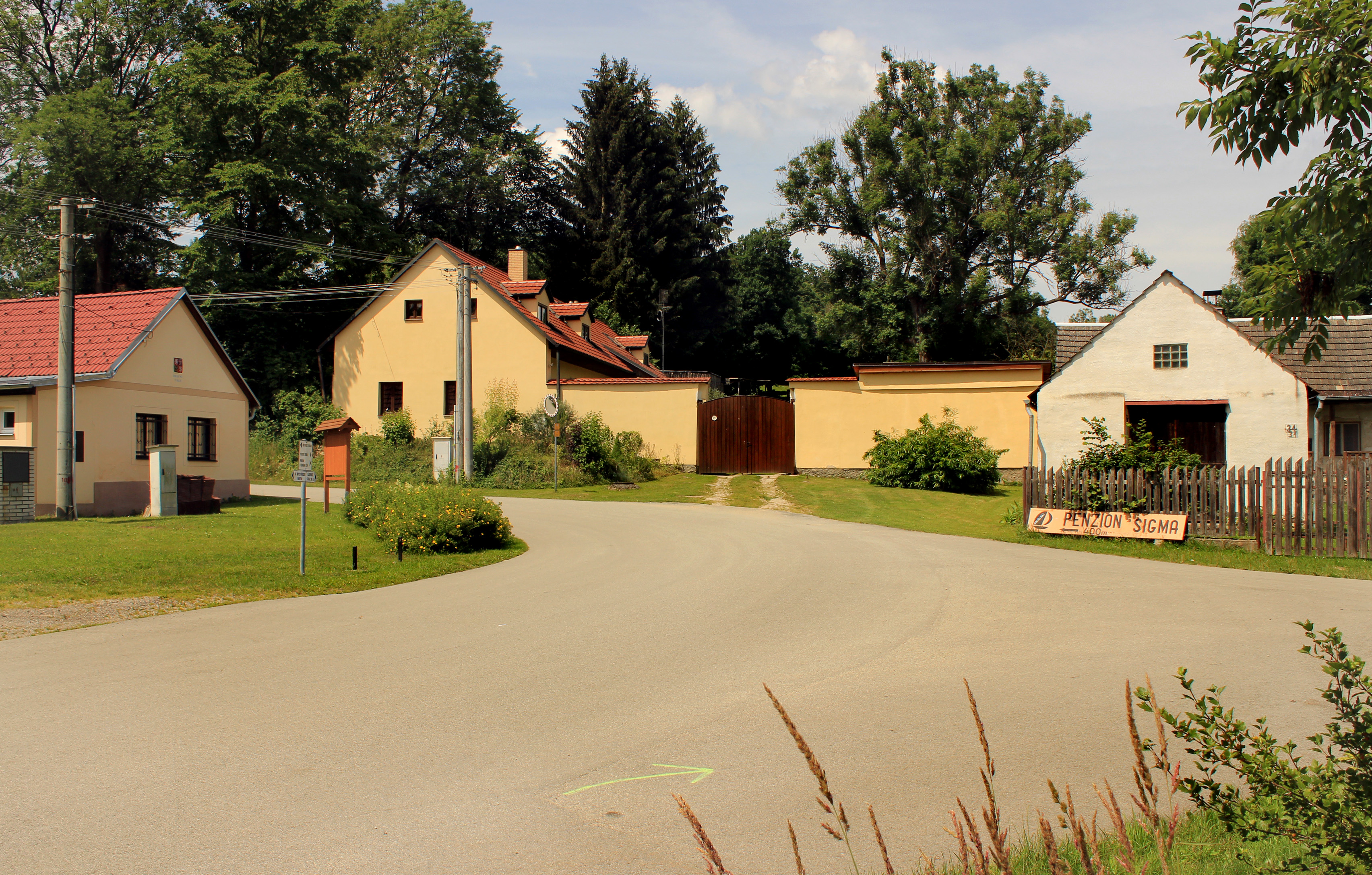 Common in Dolní Žďár, Czech Republic.